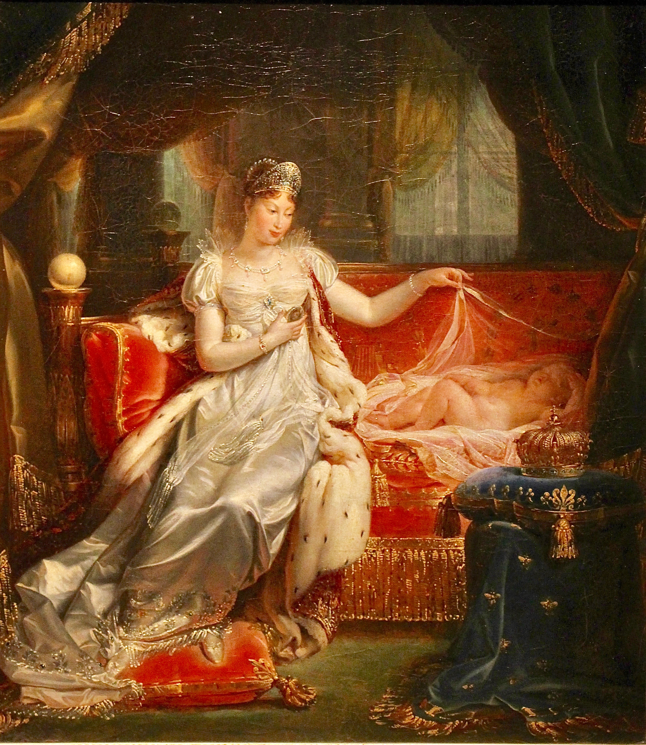 Joseph Franque, The Empress Marie-Louis Watching Over the Sleeping King of Rome, 1811, Oil on canvas, National Museum of the Palaces of Versailles and Trianon.